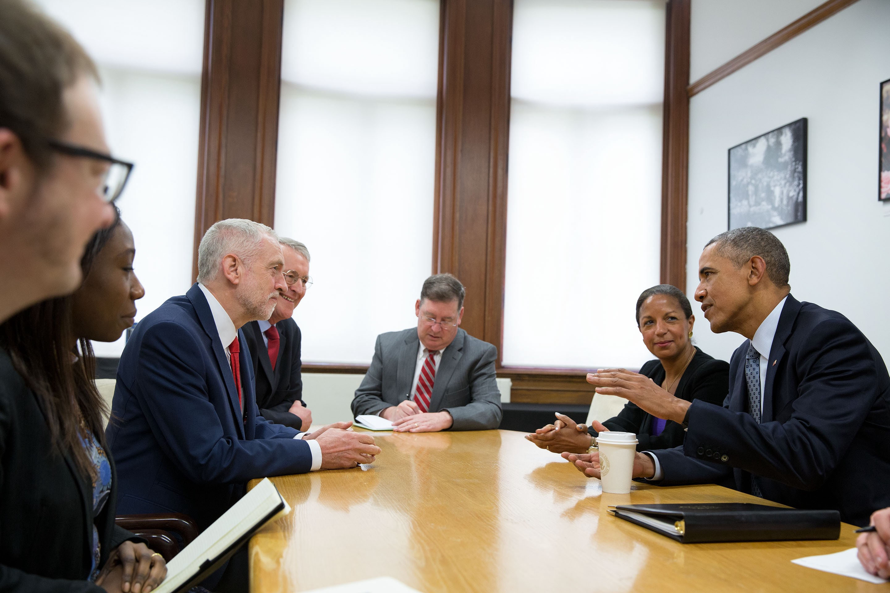 President Barack Obama meets with Jeremy Corbyn, Leader of the Labour Party and Leader of the Opposition, at Royal Horticultural Halls. (Official White House Photo by Pete Souza)